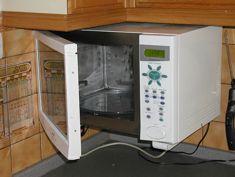 A combined microwave and fan-assisted oven.Copied via the Microwave page at Wikipedia.